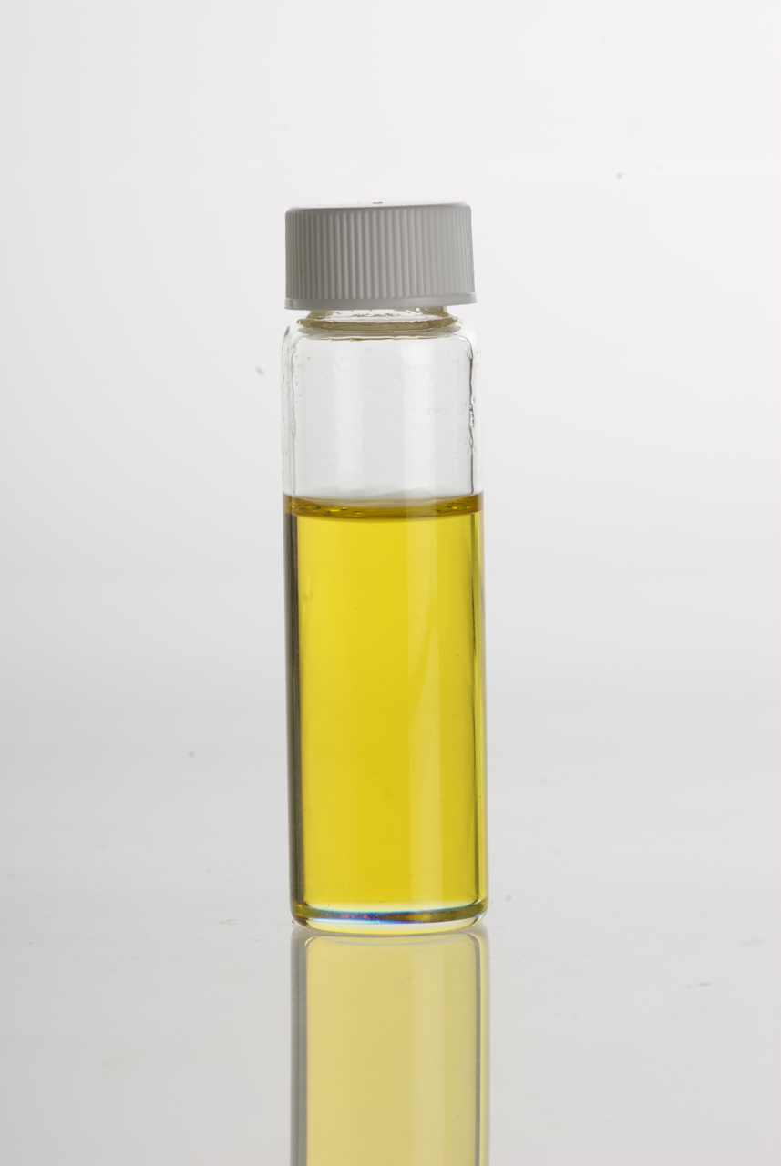 Grapefruit (Citrus paradisi) Essential Oil in clear glass vial